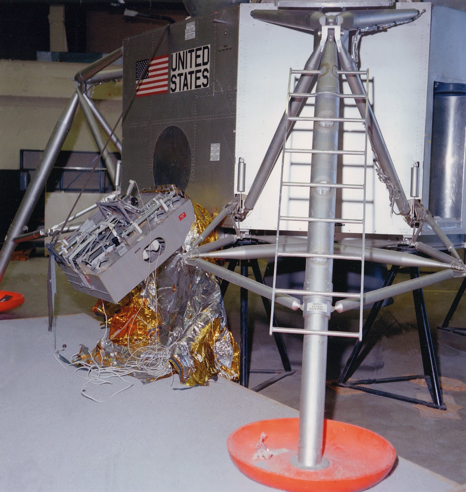 side of Lunar Module showing MESA and Apollo TV camera